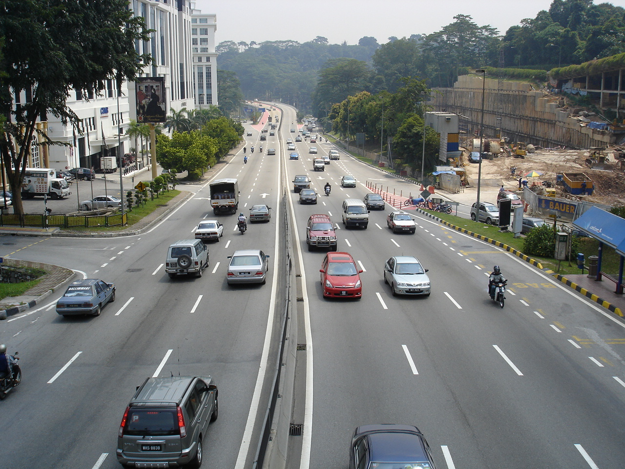 The Damansara section (near Jalan Semantan) of the Sprint Highway in Kuala Lumpur.